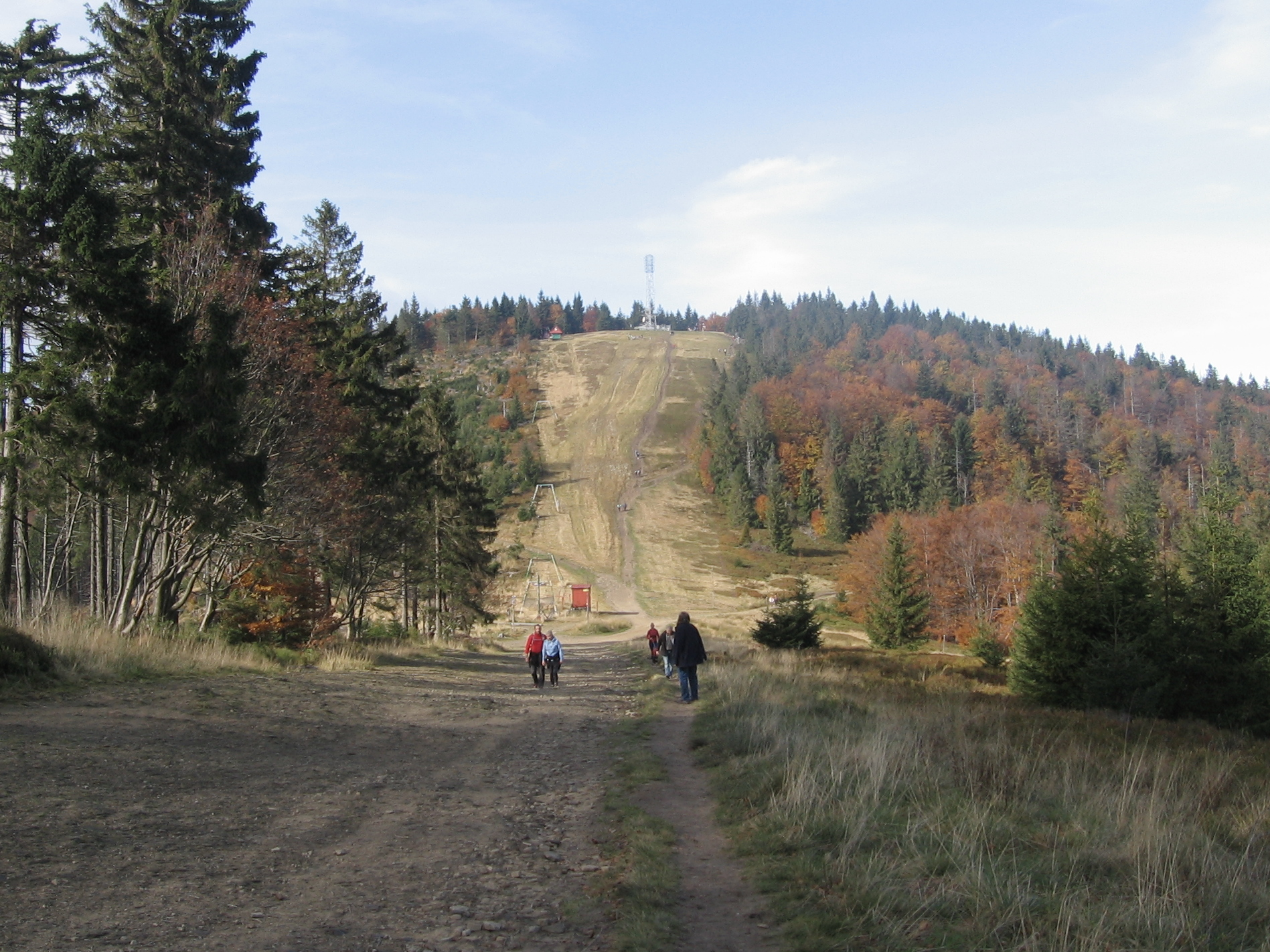 The summit of Klimczok, Beskid Śląski (Silesian Beskids), Poland.